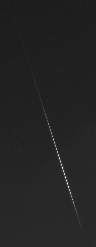 Flare of Iridium 84 satellite